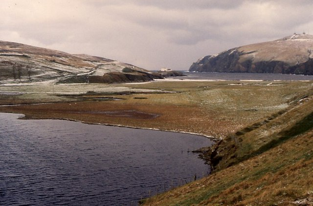 Burrafirth The narrow links separating the Loch of Cliff from the sea at Burra Firth.